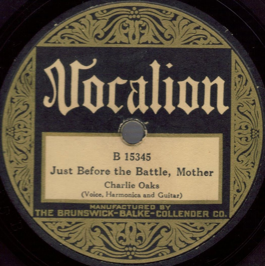 Just Before the Battle, Mother by Charlie Oaks, Vocalion ca. 1925.